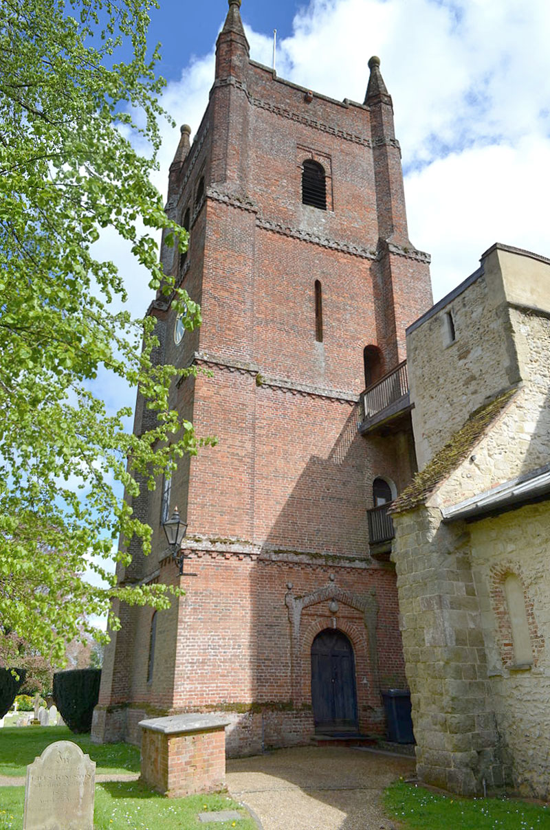 West tower of All Saints' parish church, Crondall, Hampshire, seen from the southeast. It was built after 1659 and has clasping buttresses.